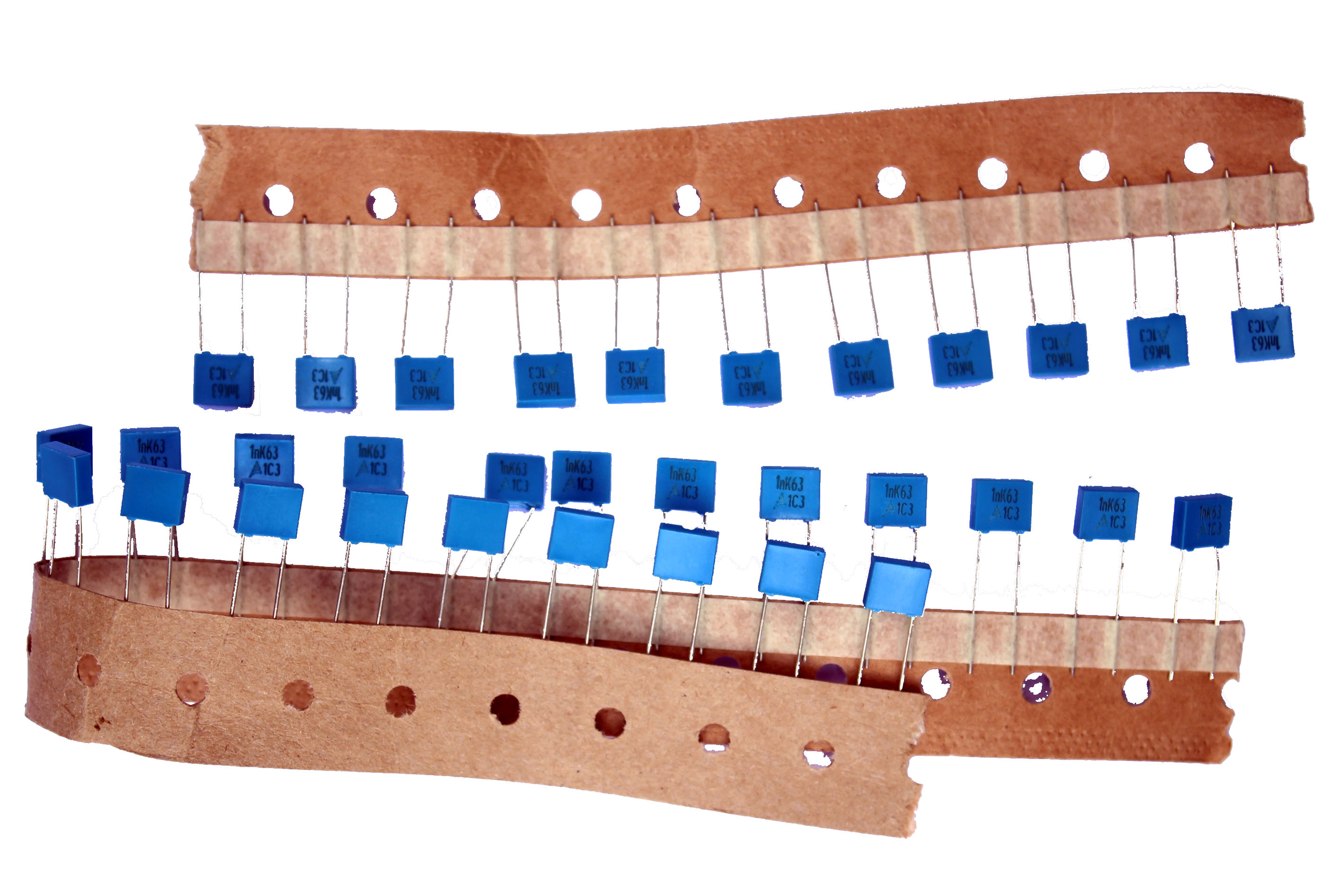 Box capacitors